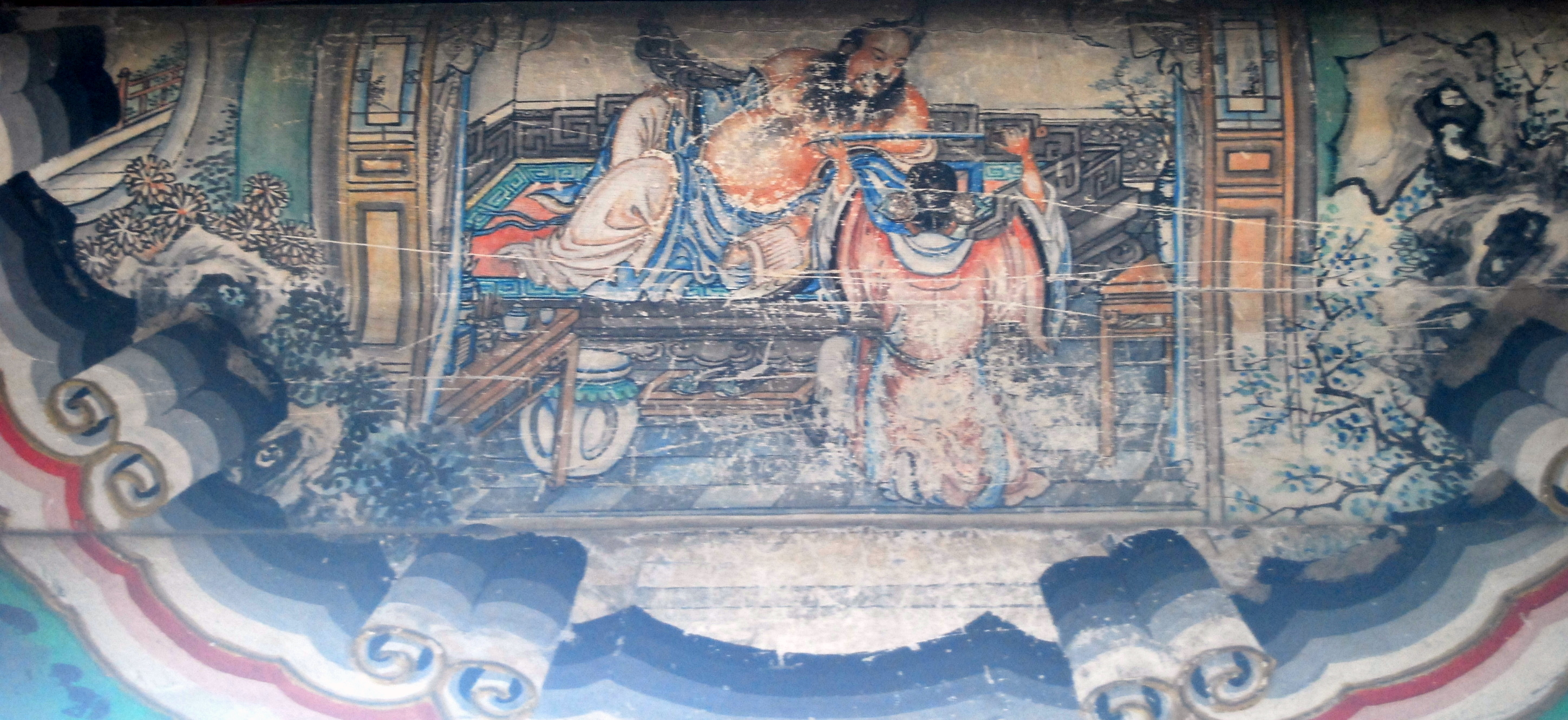 A panel from the Long Corridor at the Summer Palace in Beijing. The panel is entitled, "Mengde presents a dagger (孟德献刀)." The story is described in Romance of the Three Kingdoms/Chapter 4.